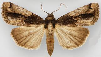 Bryolymnia anthracitaria female